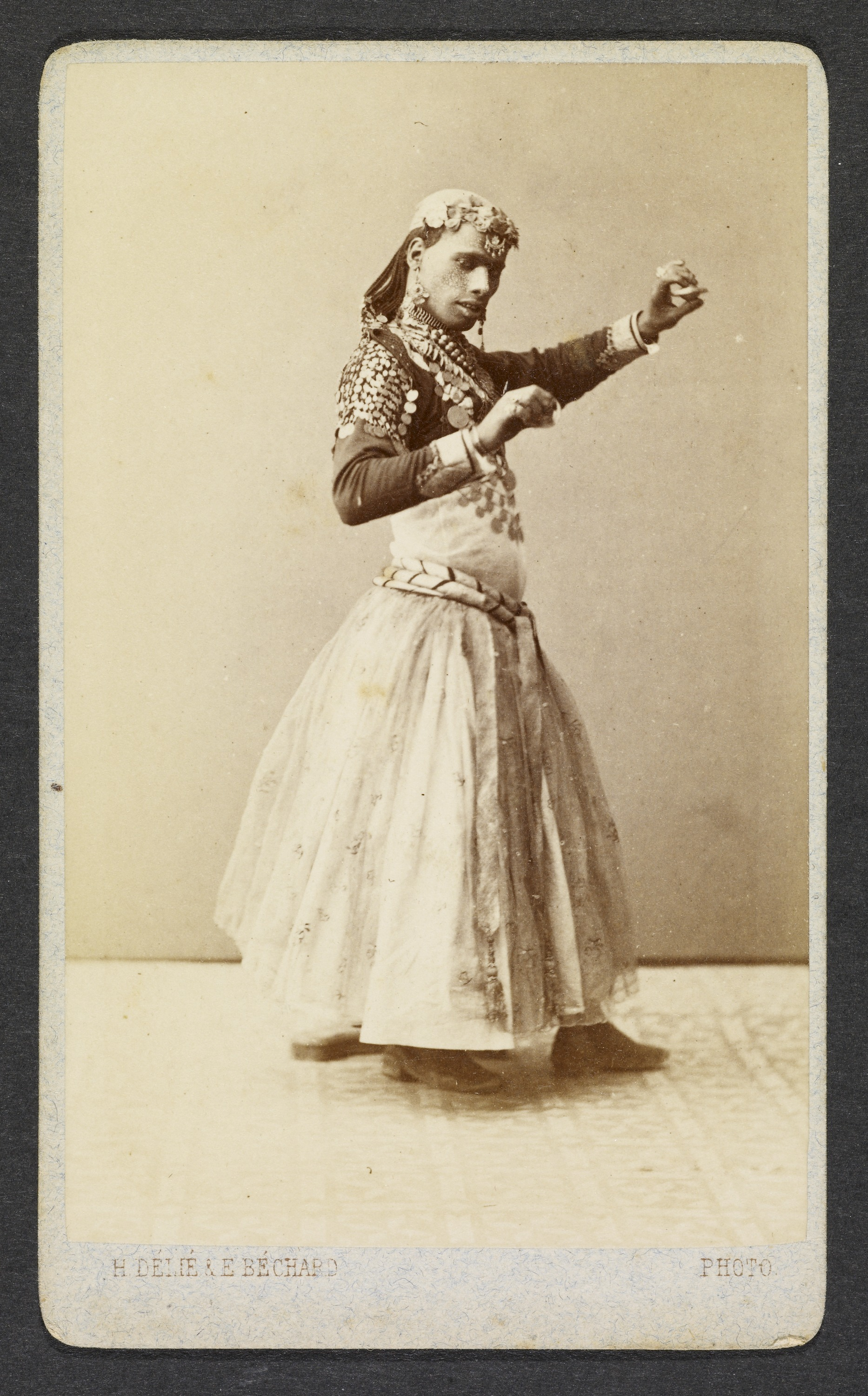 Portrait of male dancer in female costume (see khawal). On verso: AU JARDIN DE L’ESBEKIEH. H. Délié & E. Béchard CAIRE EGYPTE” & “LES CLICHES SONT CONSERVÉS”.